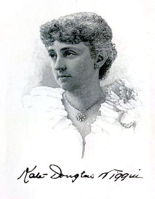 Kate Douglas Wiggin - Project Gutenberg eText 15630